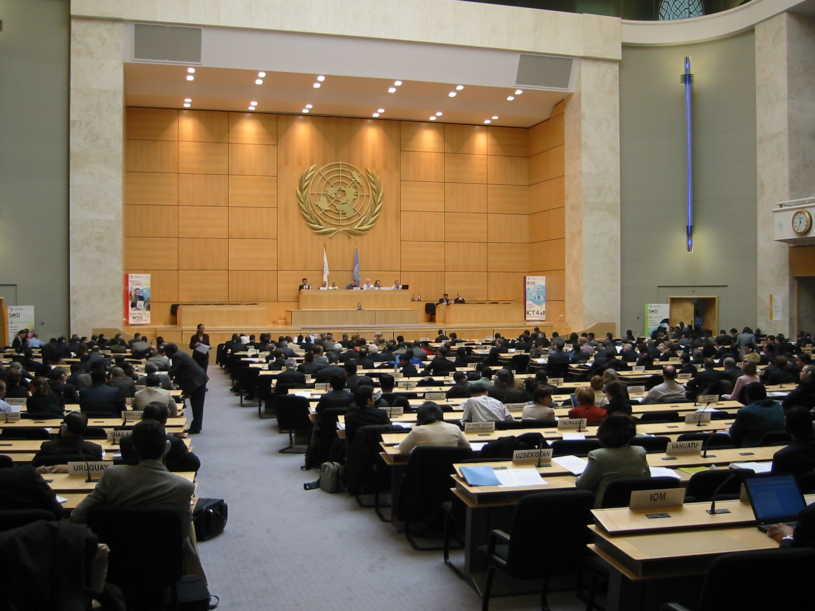 Second preliminary session of the World Summit Information Society, plenary meeting, 18-25 February 2005, UNO building, Geneva, Switzerland.